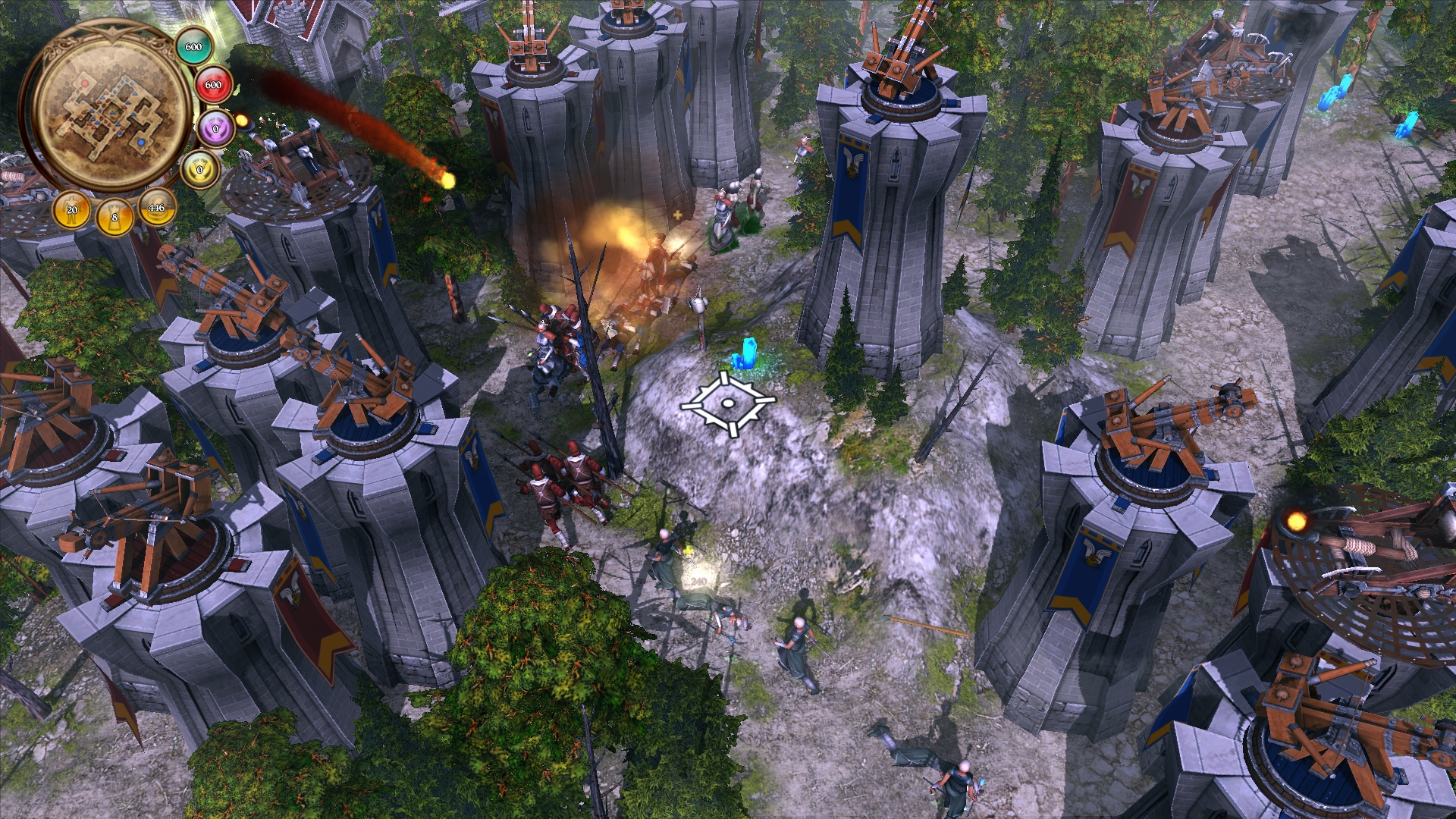 Screenshot from the video game Defenders of Ardania